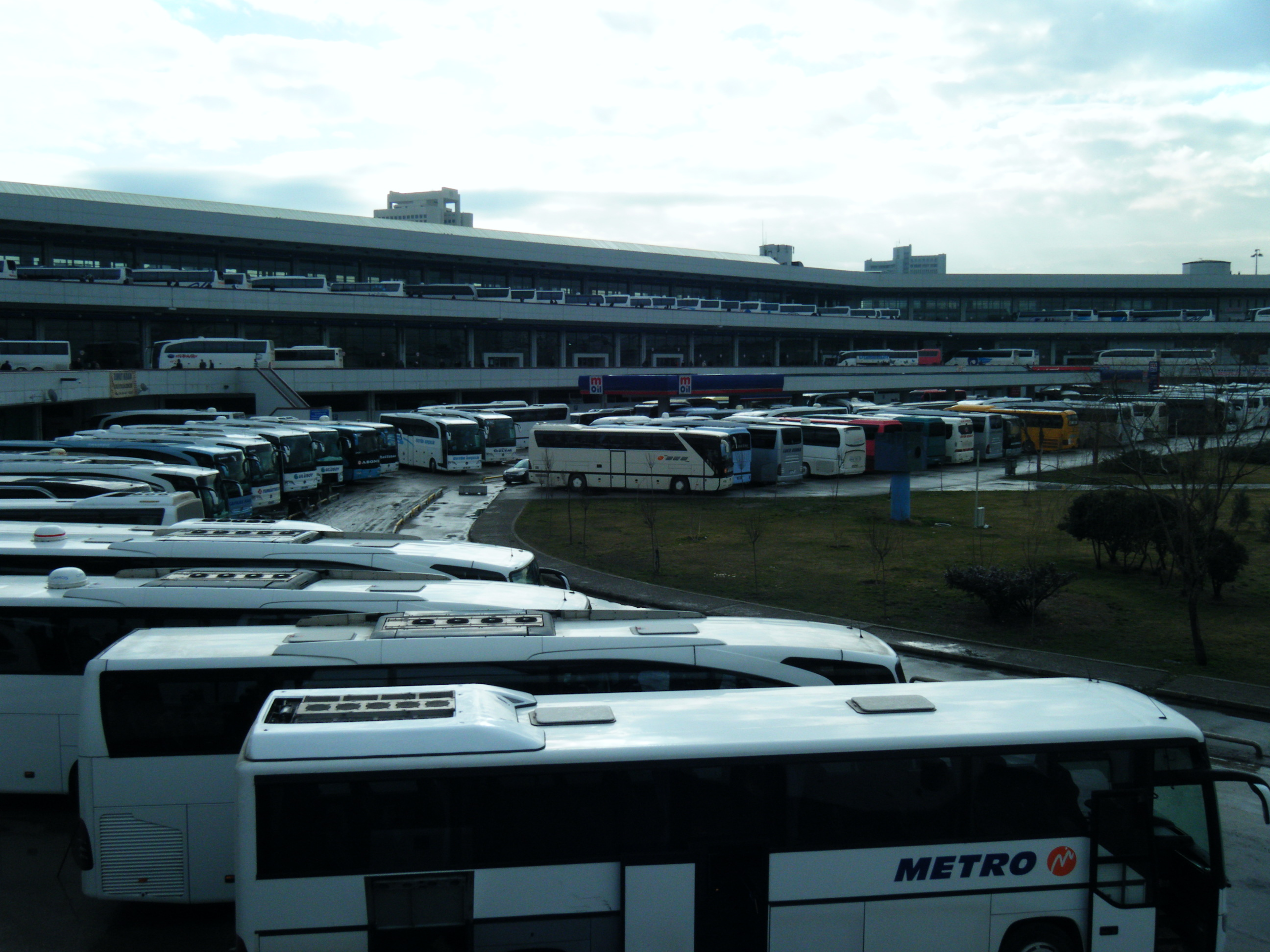 Bus station in Ankara